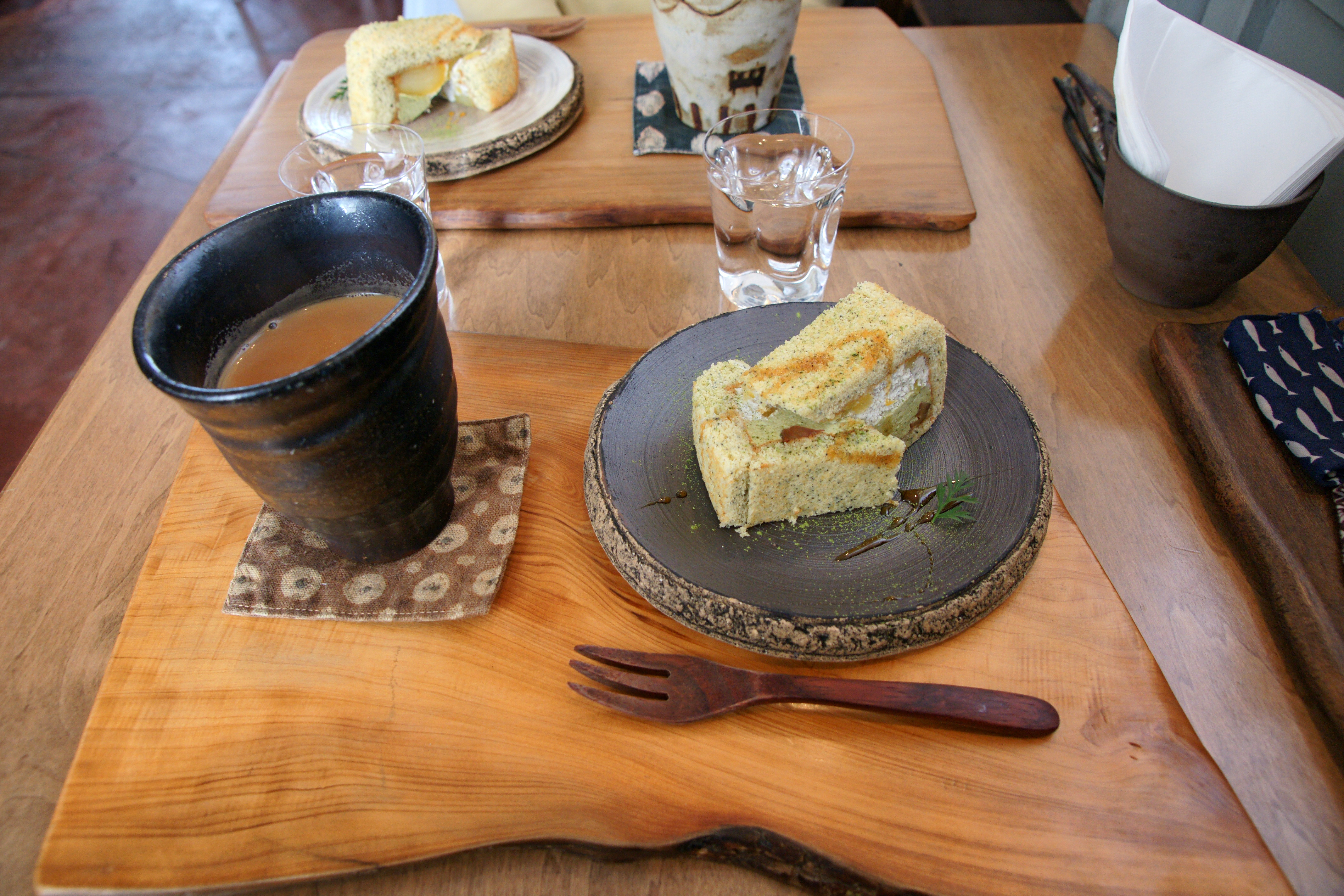 Old Nishimotogumi headquarters building, Wakayama, Wakayama prefecture, Japan